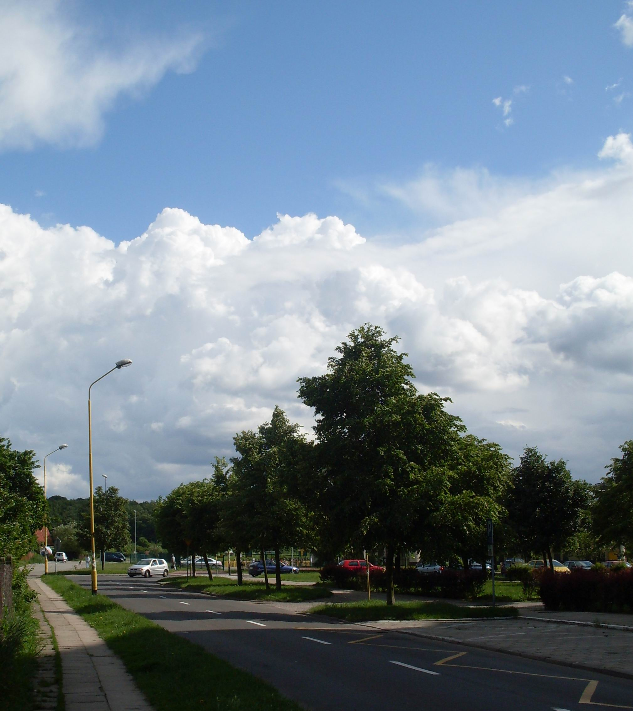 Zamenhofa Street in Police, Poland